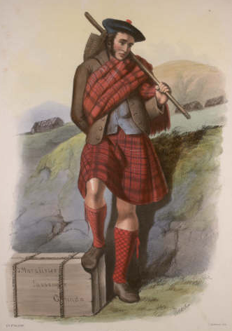 "MacAlister". A plate illustrated by R. R. McIan, from James Logan's The Clans of the Scottish Highlands, published in 1845.